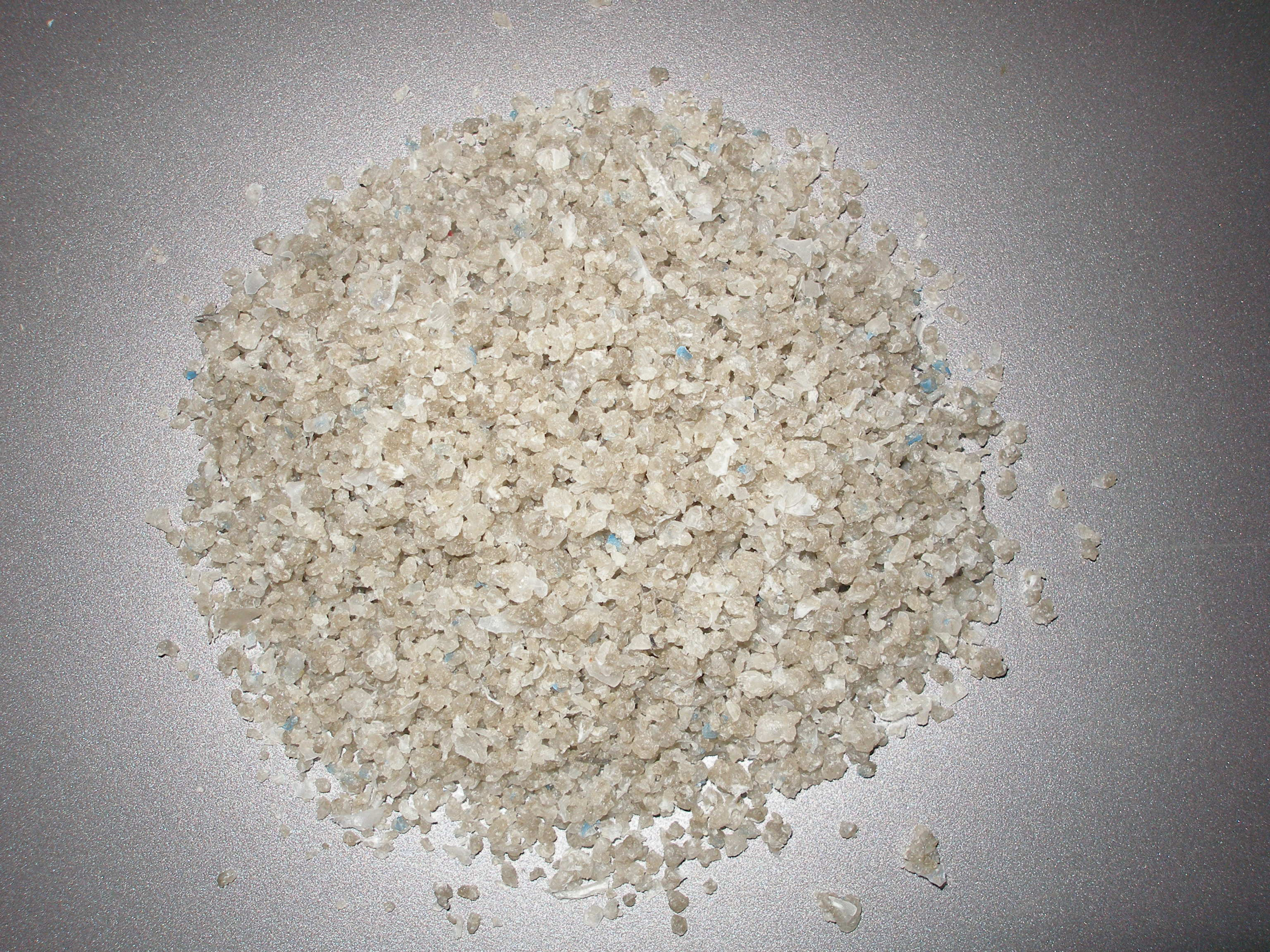 Crushed HDPE for recycling